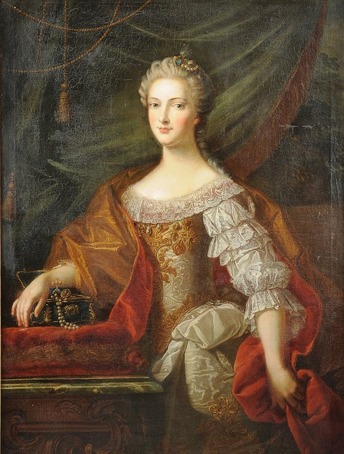 Archduchess Maria Anna of Austria (1718-1744), governor of the Habsburg Netherlands